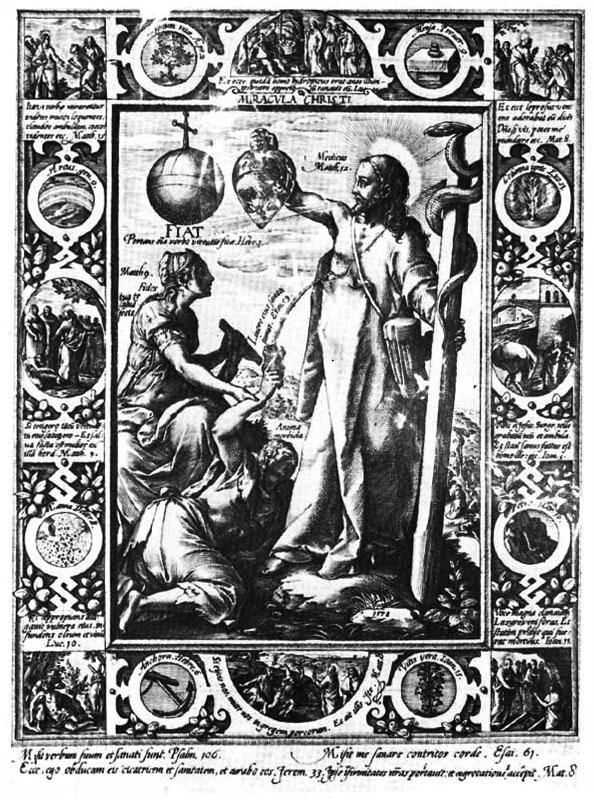 Illustration from "Schola cordis"